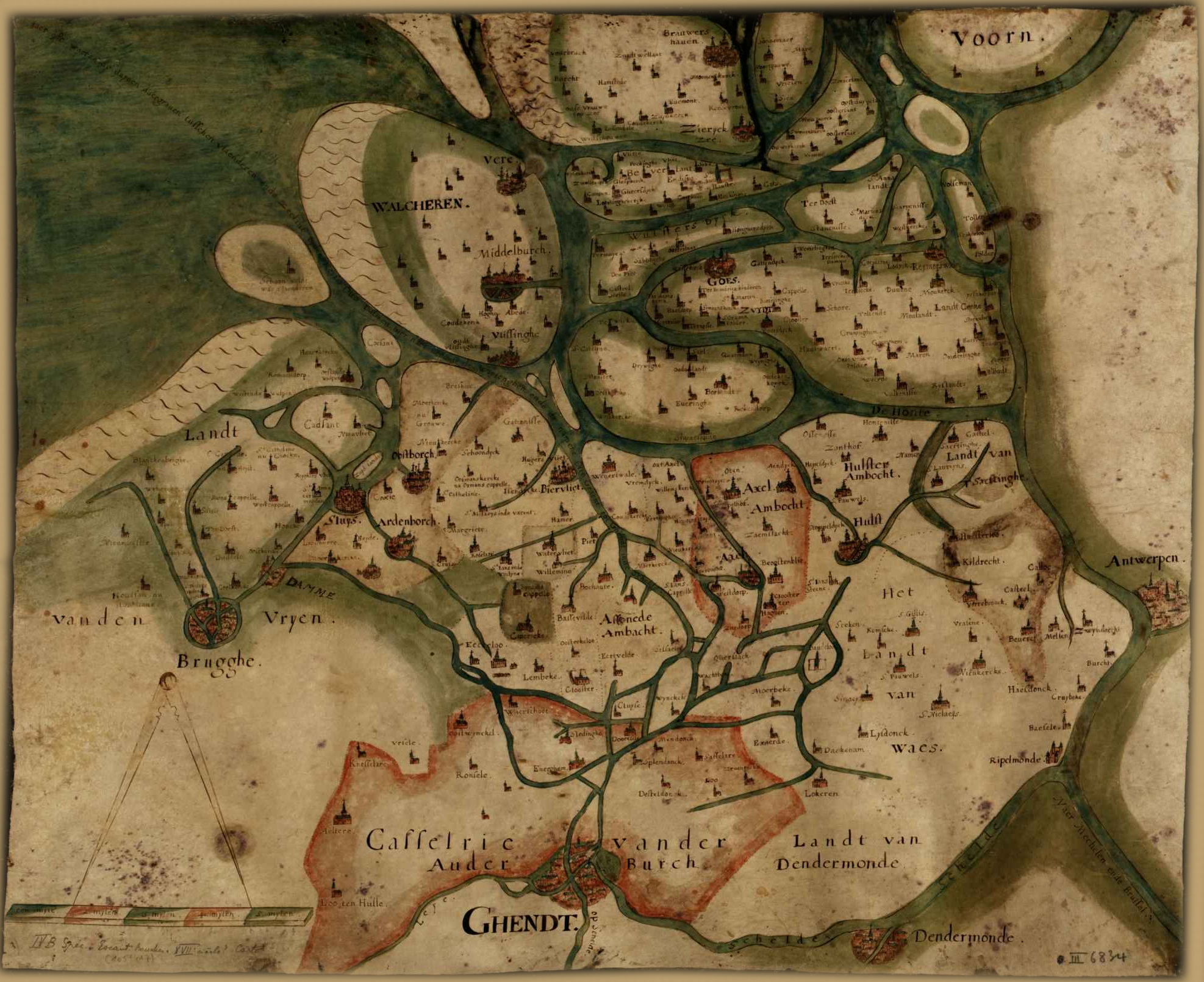 17th-century representation of Flanders and Zeeland in the 14th century